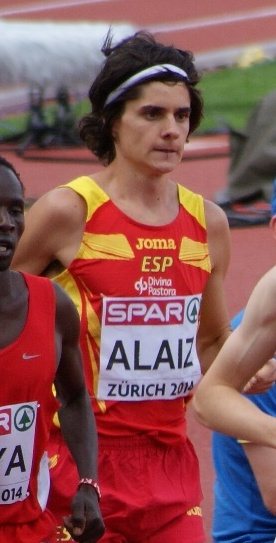 Roberto Aláiz competing at the 2014 European Championships